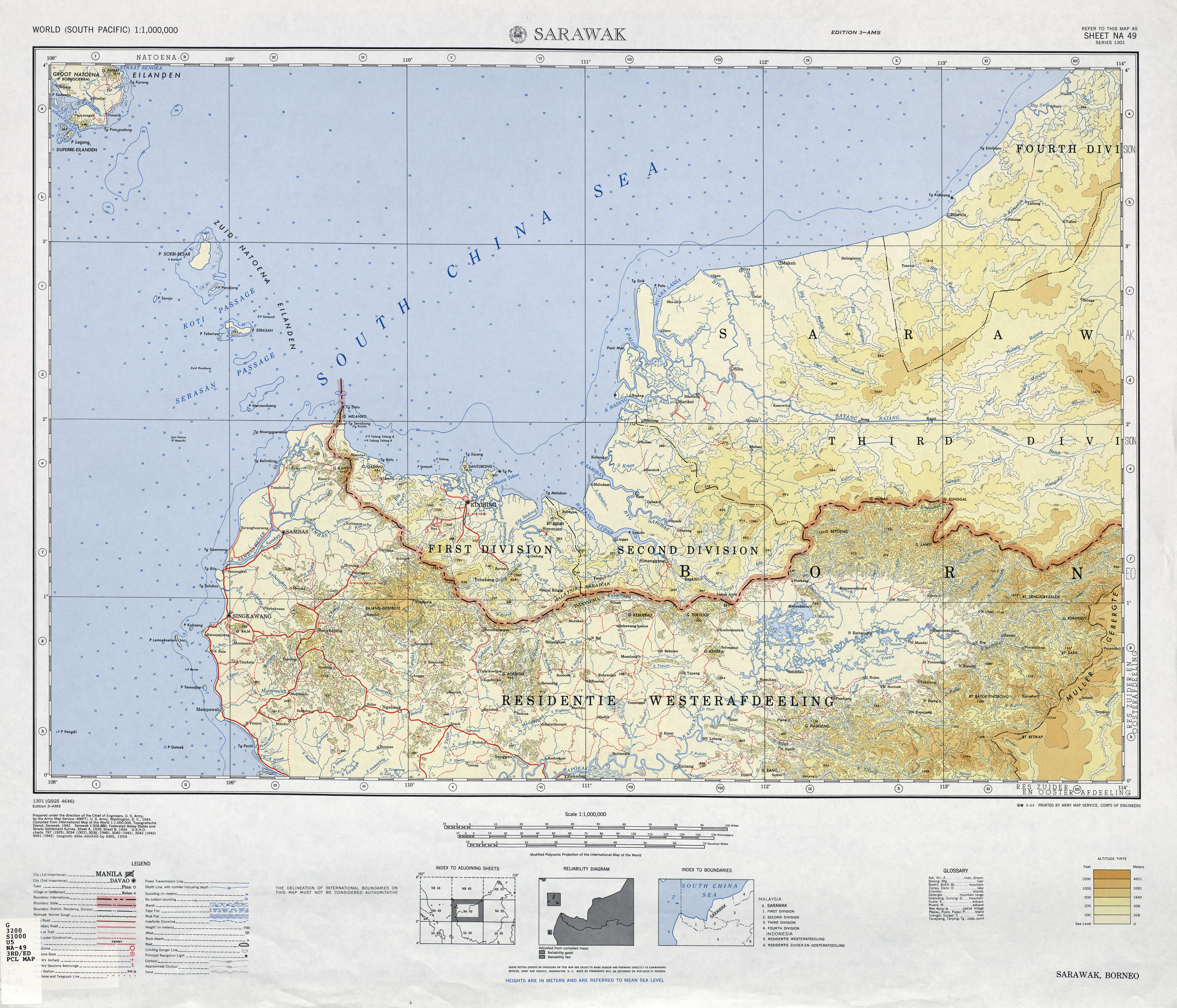 NA 49 Sarawak [Malaysia, Indonesia] Series 1301, Edition 3-AMS (6.5MB)